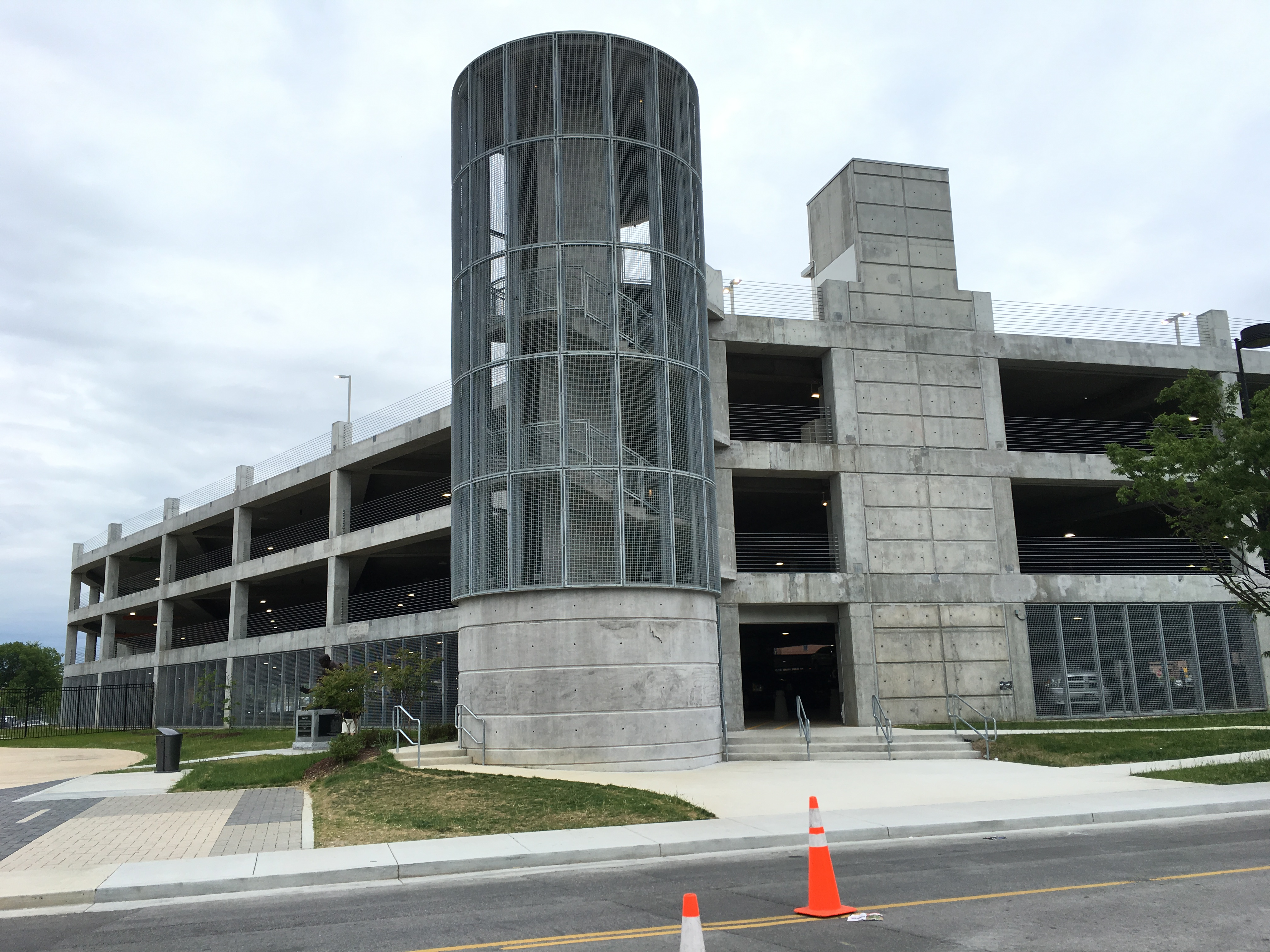 The parking garage at First Tennessee Park